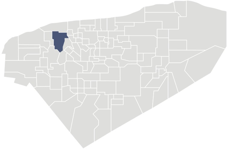 Map of the Thirdt Federal Electoral District of the State of Yucatan, México.